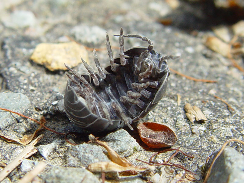 Armadillidium vulgare, (Phylum: Arthropoda, Class: Malacostraca, Family: Armadillidiidae). Location : Angel Island - San Francisco Bay, California